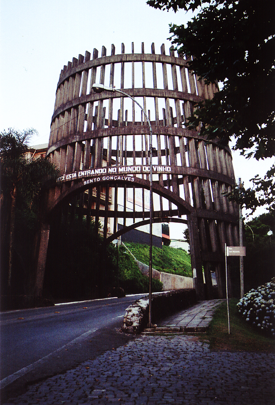 City entrance to Bento Gonçalves.